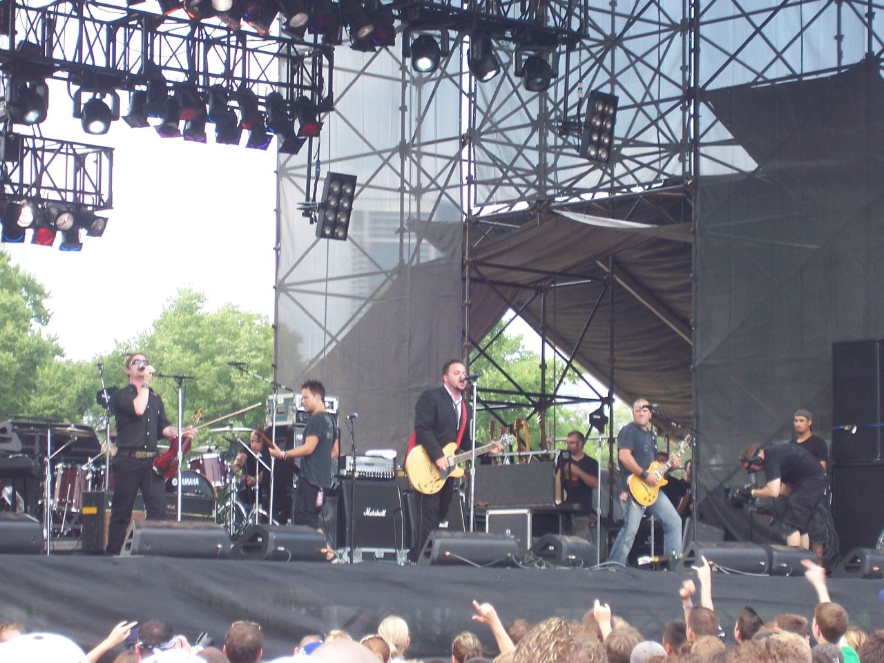 Blue October performing at Lollapalooza 2007.